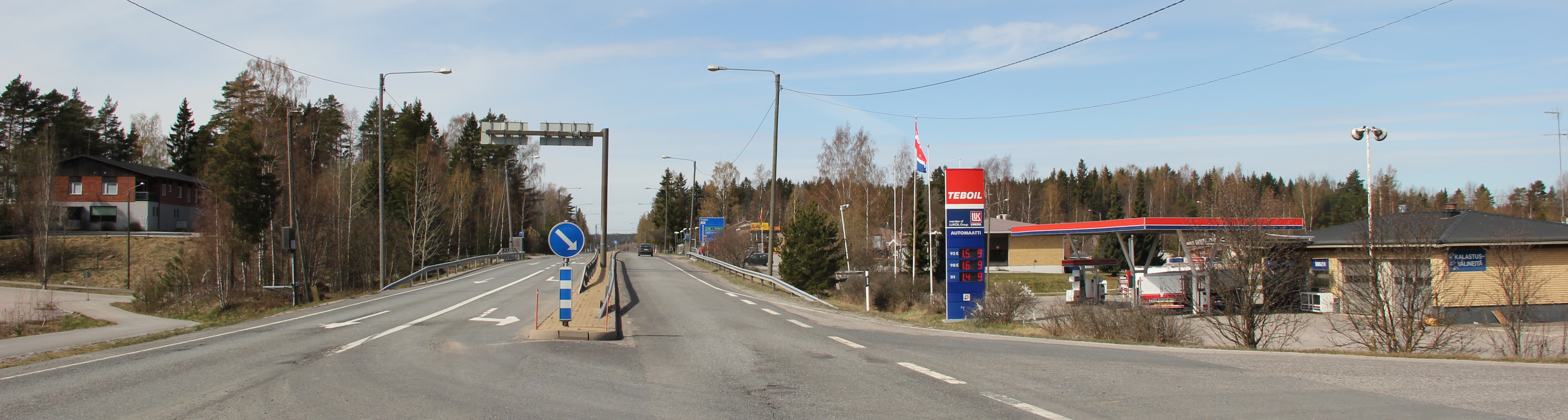 Kitula, Suomusjärvi, Salo, regional road 110